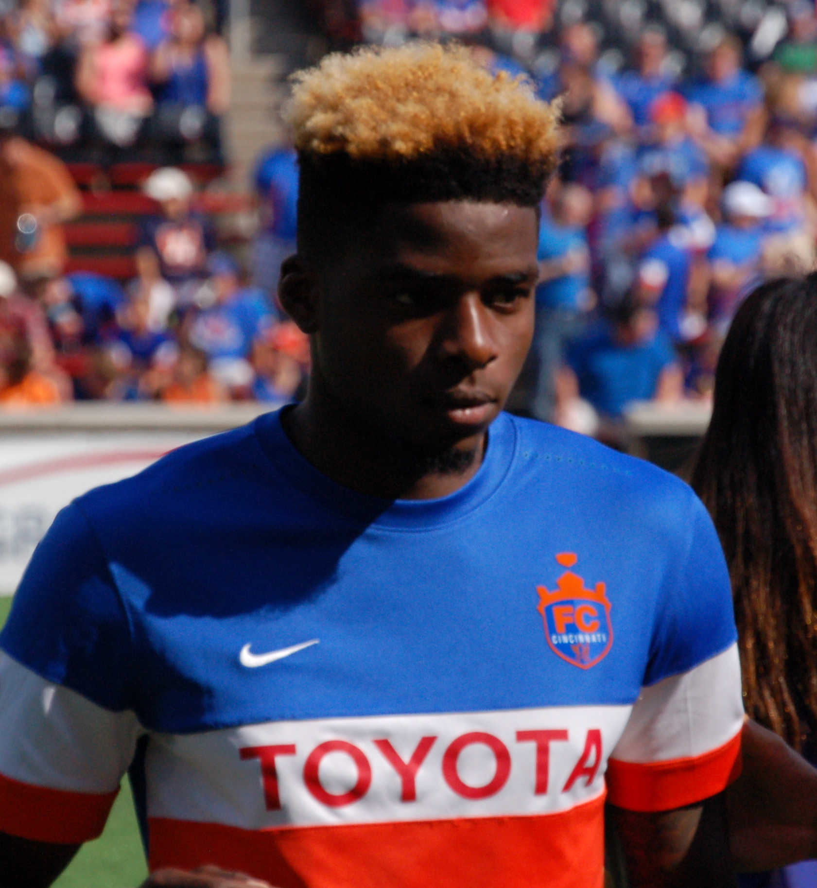 Sean Okoli Taken during a USL regular season match between FC Cincinnati and Saint Louis FC at Nippert Stadium in Cincinnati, USA on September 5, 2016.